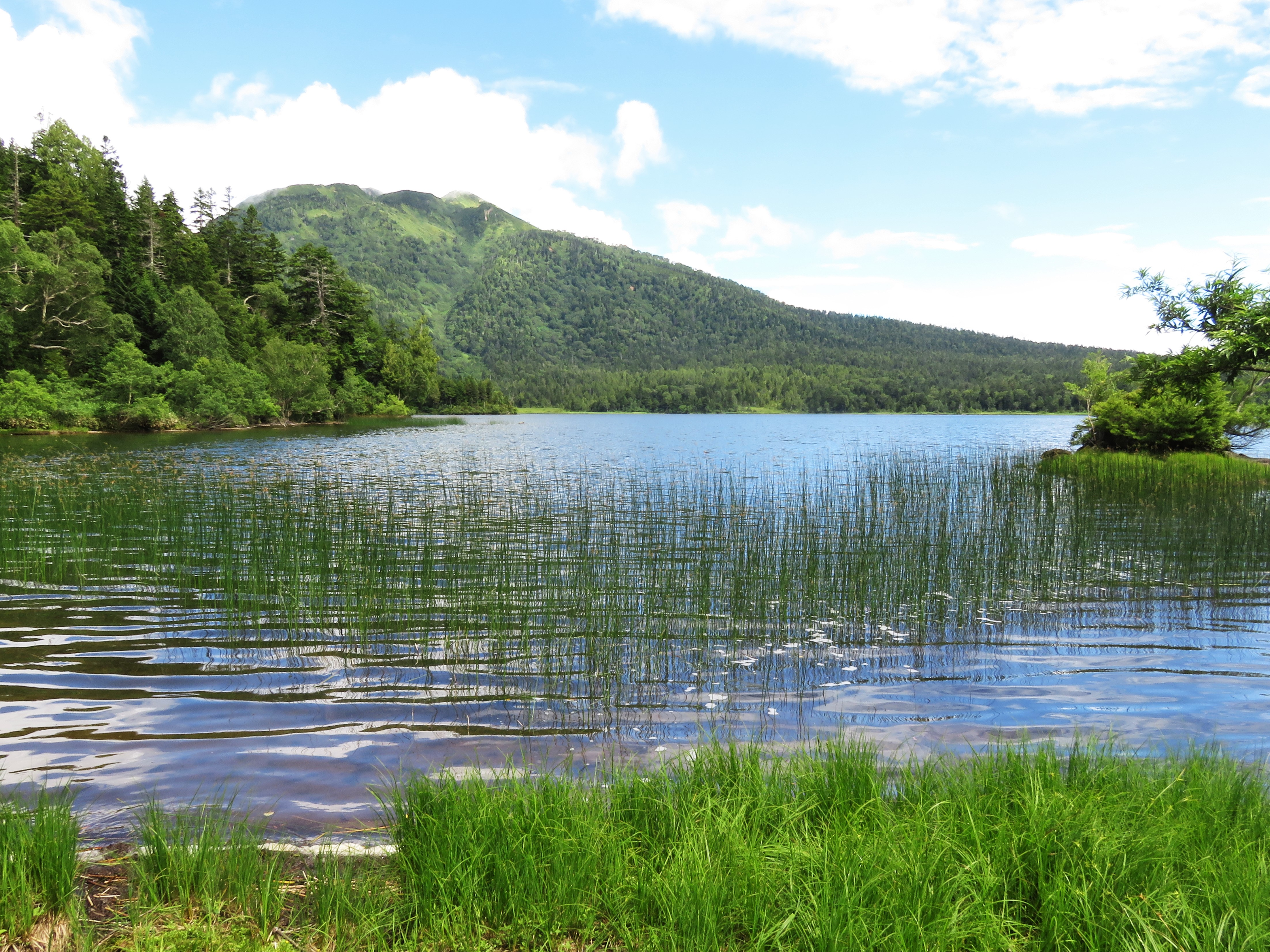 Mount Hiuchi, Fukushima Prefecture, Japan